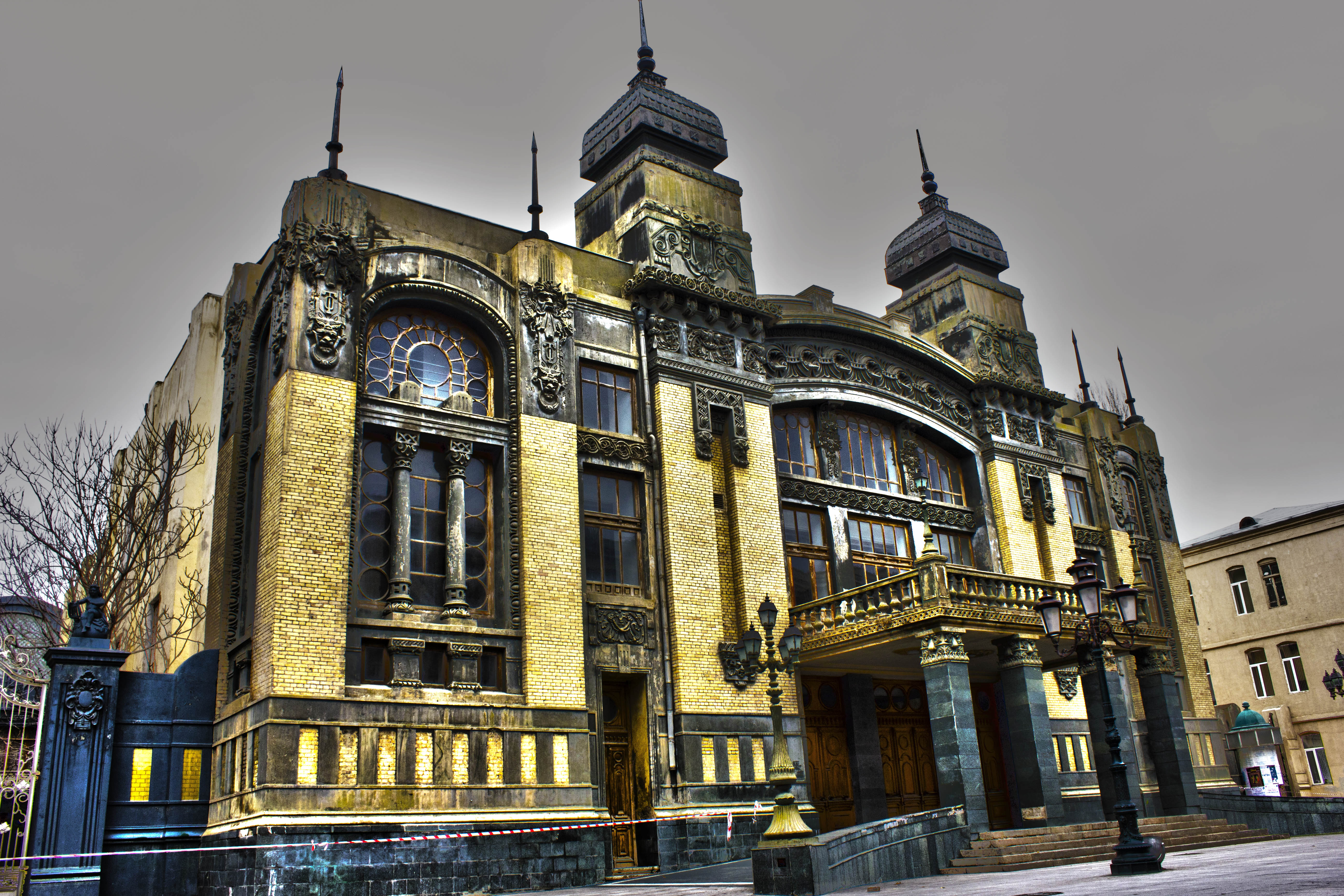 Azerbaijan State Opera and Balet Theatre